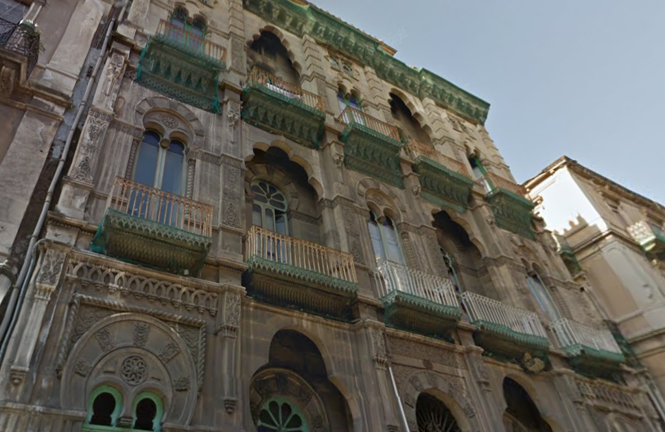 Palazzo Mazzone, Via Umberto I, Catania, arch. Tommaso Malerba (1)